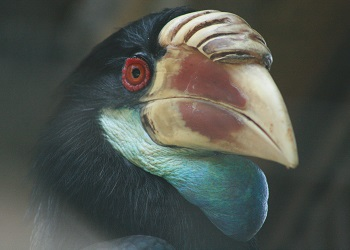 Sumba Hornbill - Bali Bird Park